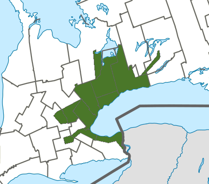 Approximate service of the GO transit network.